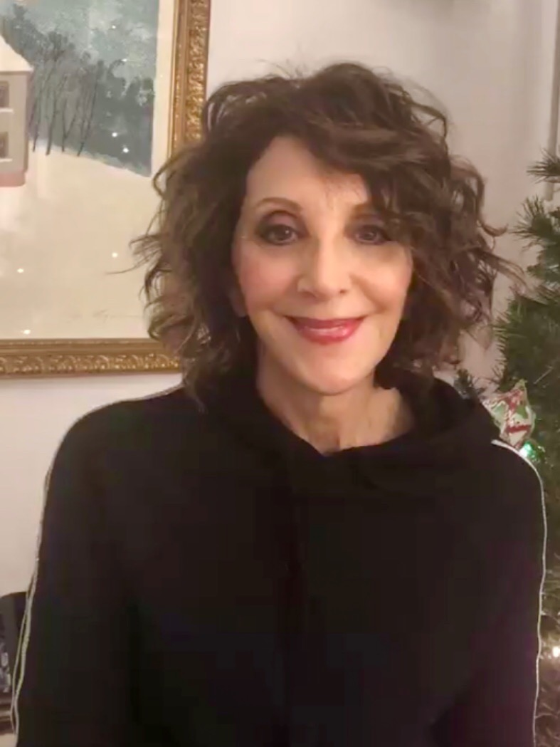 Andrea Martin - Lyceum Theatre Backstage 2019